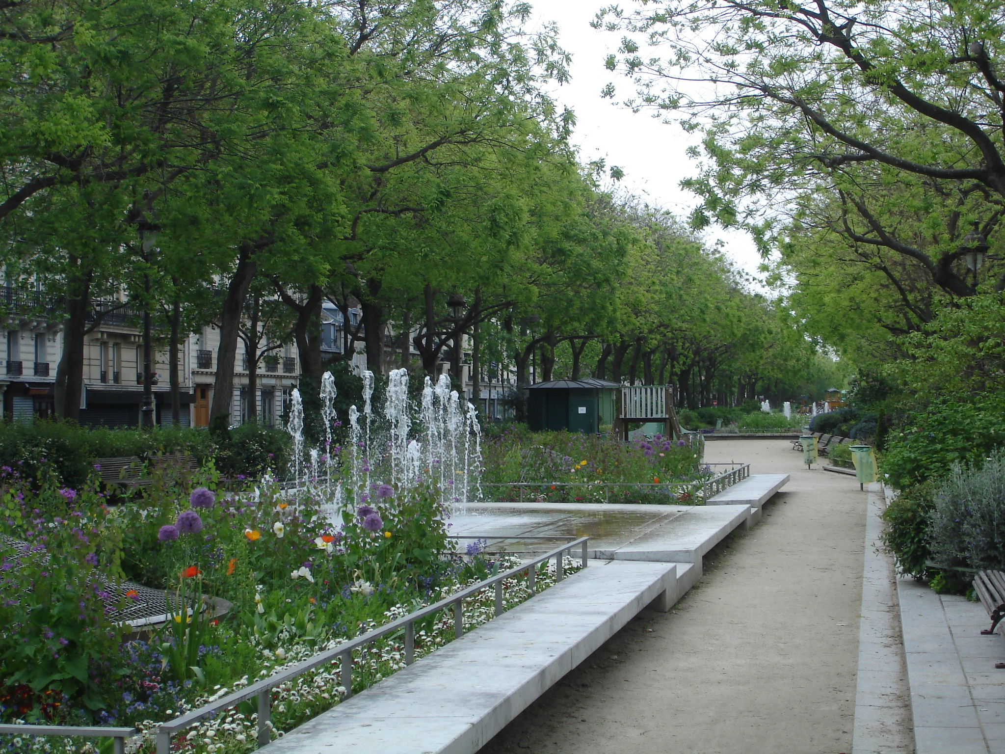 Bd Richard Lenoir - Paris - Central gardens